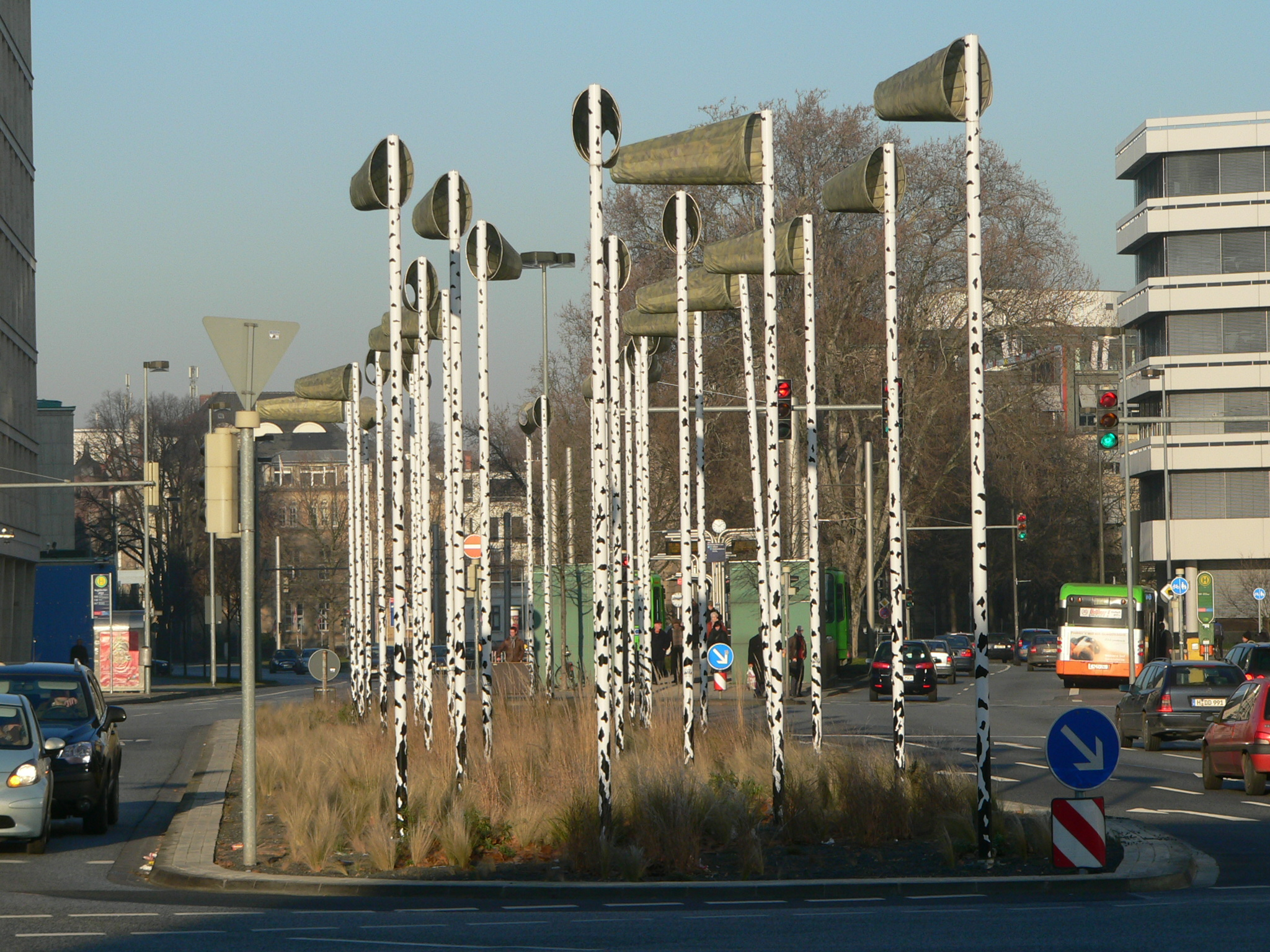 Aegidienwald, Aegidientorplatz, Hannover, Germany.